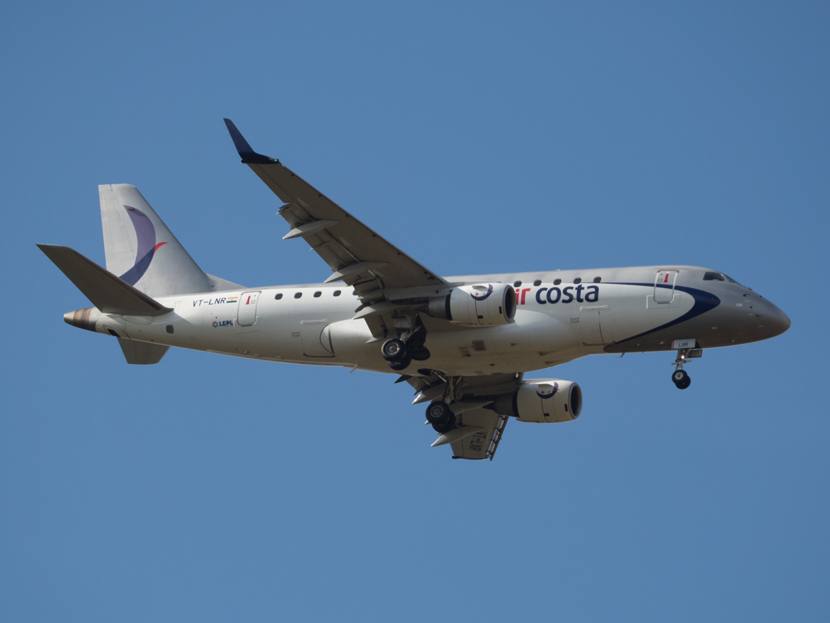 Air Costa Embraer 170LR registered VT-LNR at Kempegowda Intl Airport Bengaluru